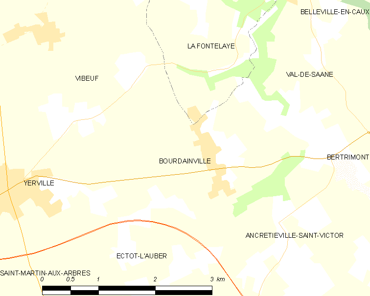 Map of French municipality Bourdainville